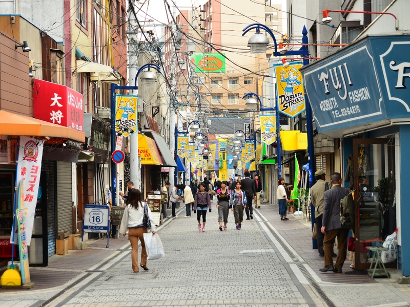 Dobuita Street, Yokosuka, Kanagawa, Japan. location:Yokosuka caption:”Dobuita" Street